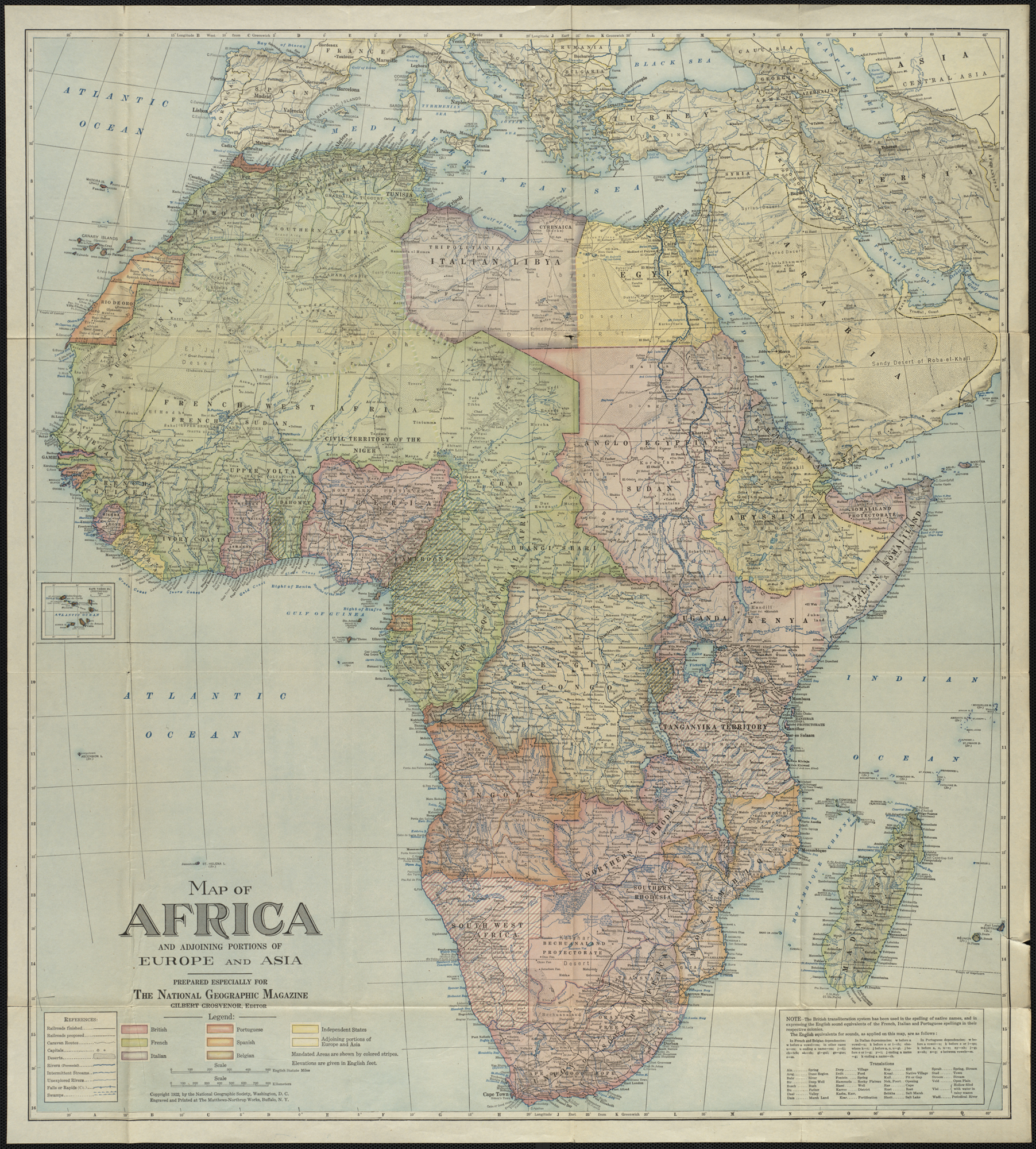 Zoom into this map at . Author: National Geographic Society (U.S.) Publisher: Engraved and printed at the Matthews-Northrup works Date: c1922. Location: Africa Scale: Scale ca. 1:11,500,000. 500 English statute miles to 6.7 cm. Call Number: G8200 1922.N38